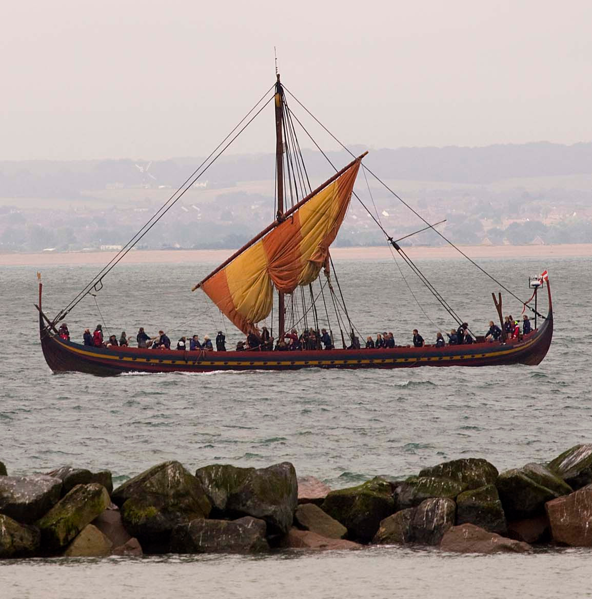 This image is a cropped version of File:Sea Stallion lowering sail.jpg. It shows the Sea Stallion waiting to enter Ramsgate Harbour after its voyage from Portsmouth